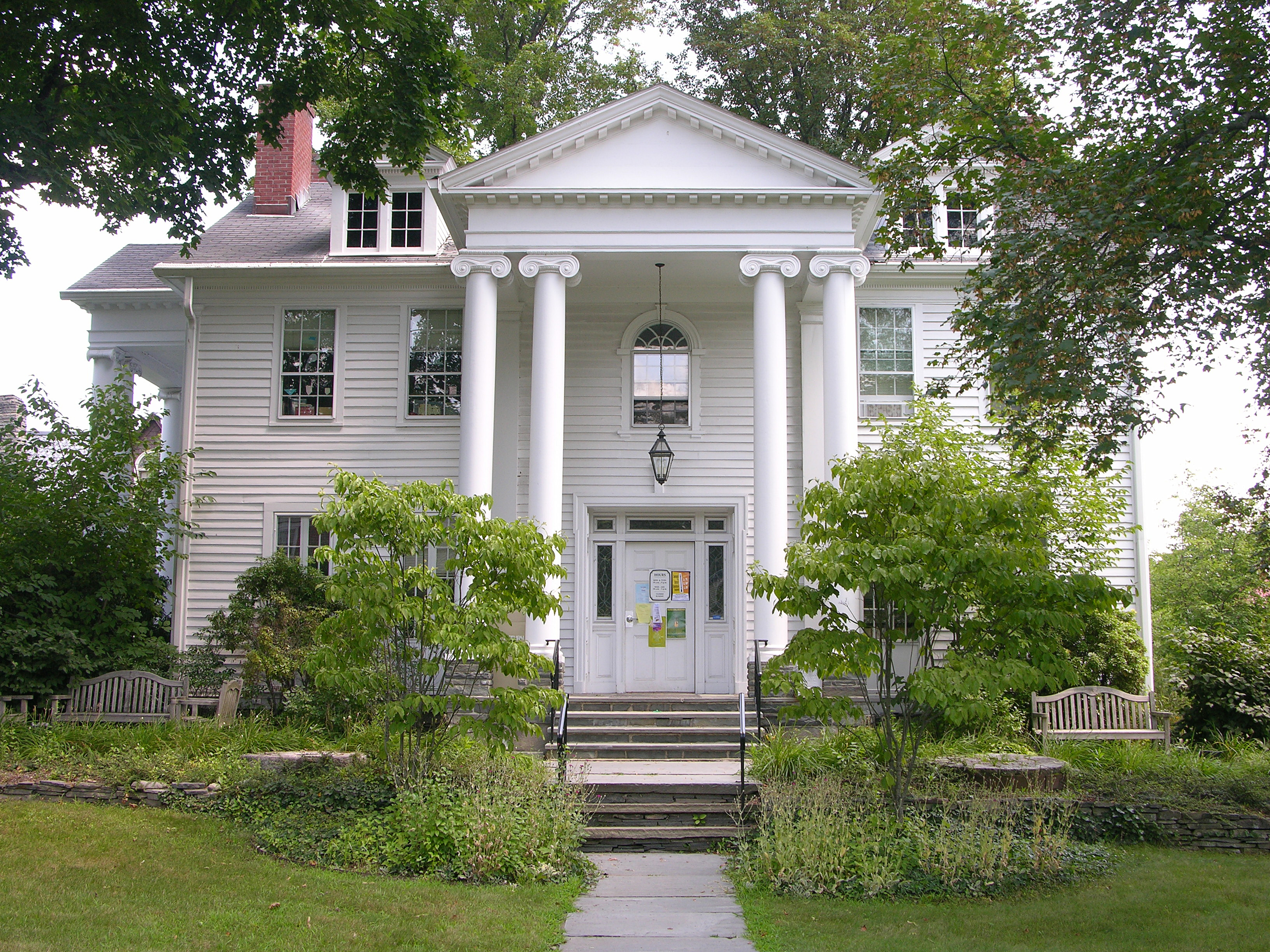 A photograph of Milford Community House and Public Library.